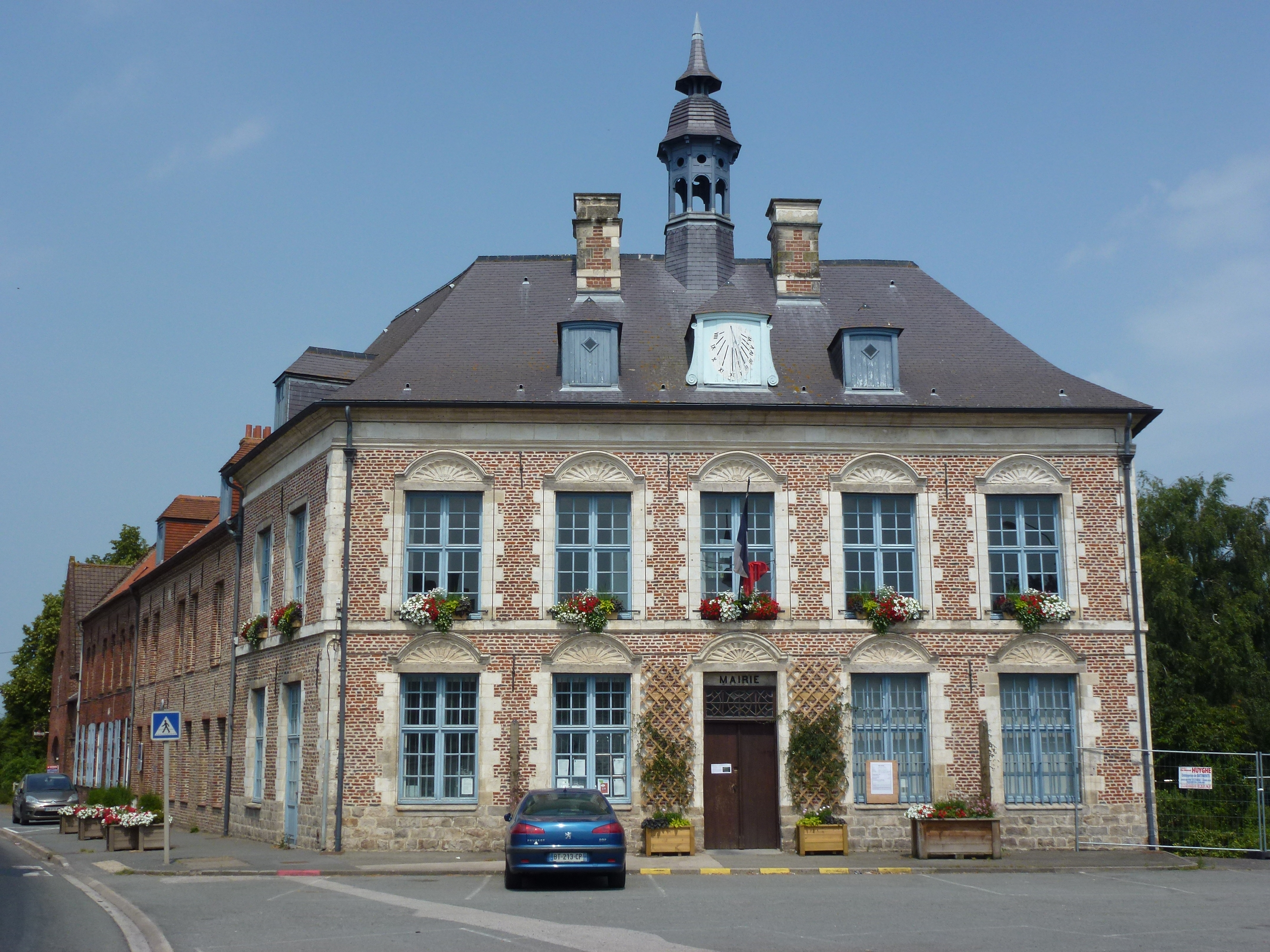 Morbecque (Nord, Fr) mairie